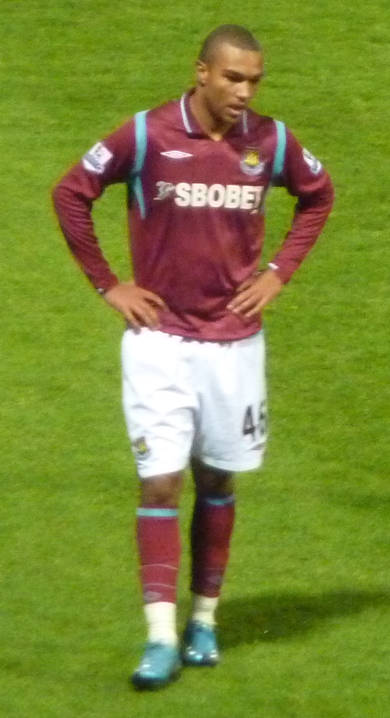 Junior Stanislas.